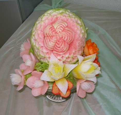 Art of fruit and vegetable carving